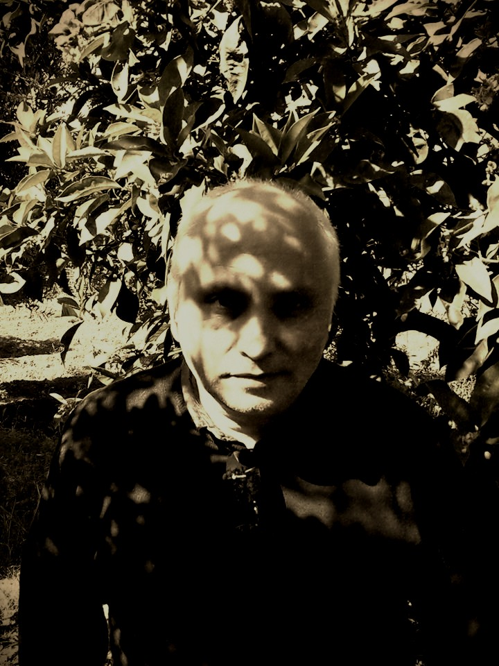 GiuseppePrinzi